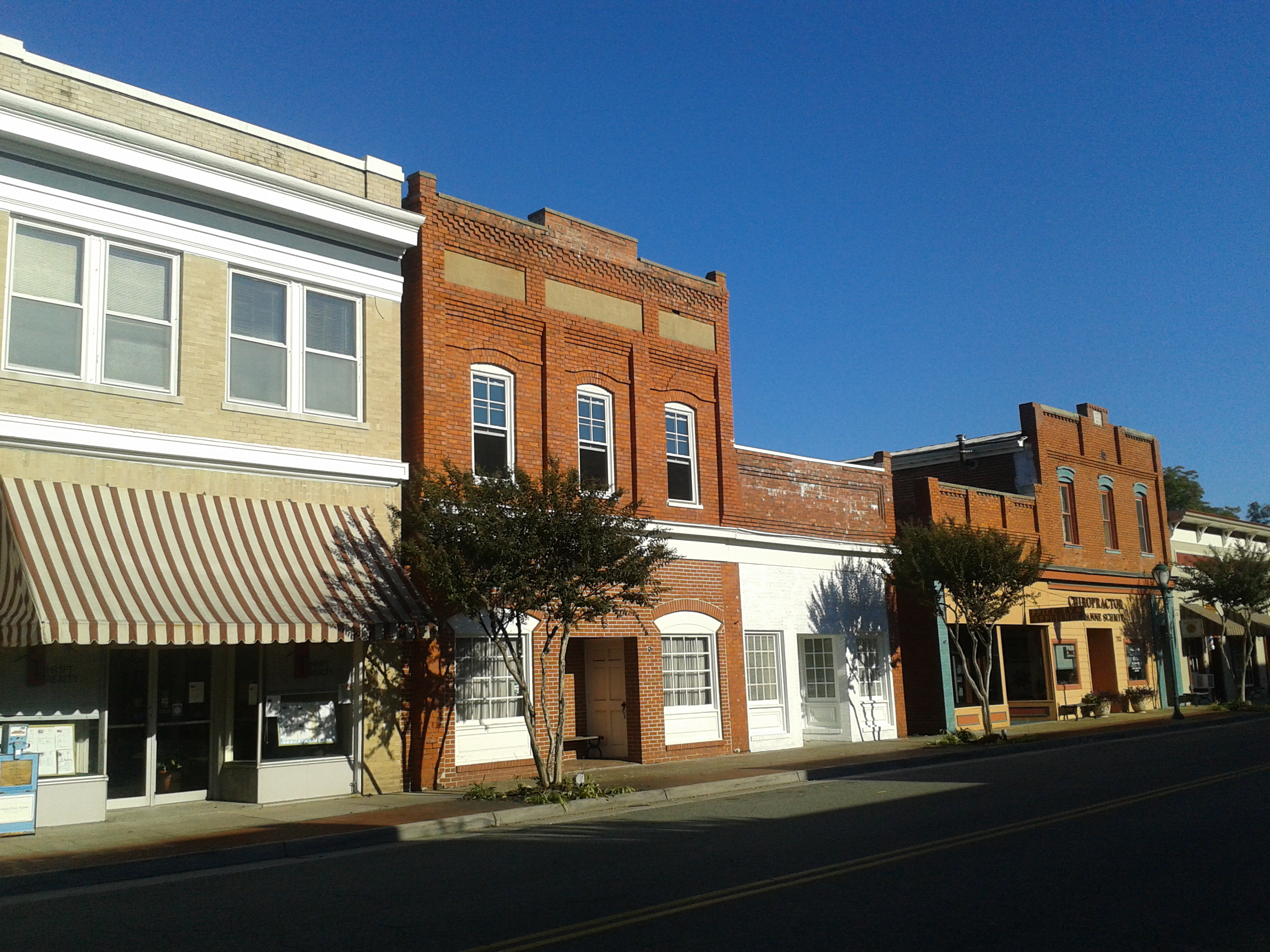 West Point, Virginia. Taken by me in October, 2016